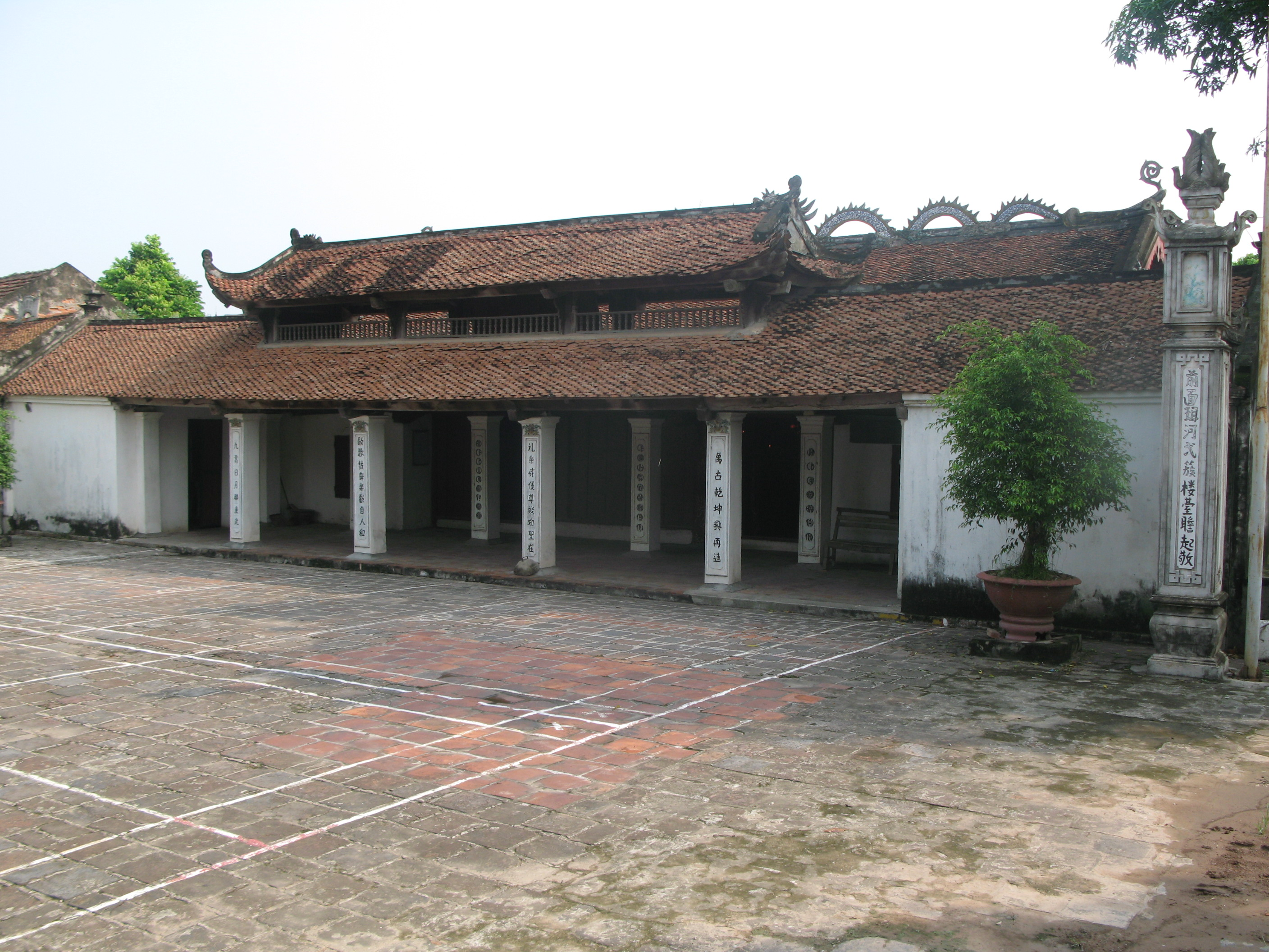 The communal house of Thổ Khối Village, Hà Nội, Việt Nam